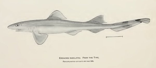 Eridacnis radcliffei Smith, 1913